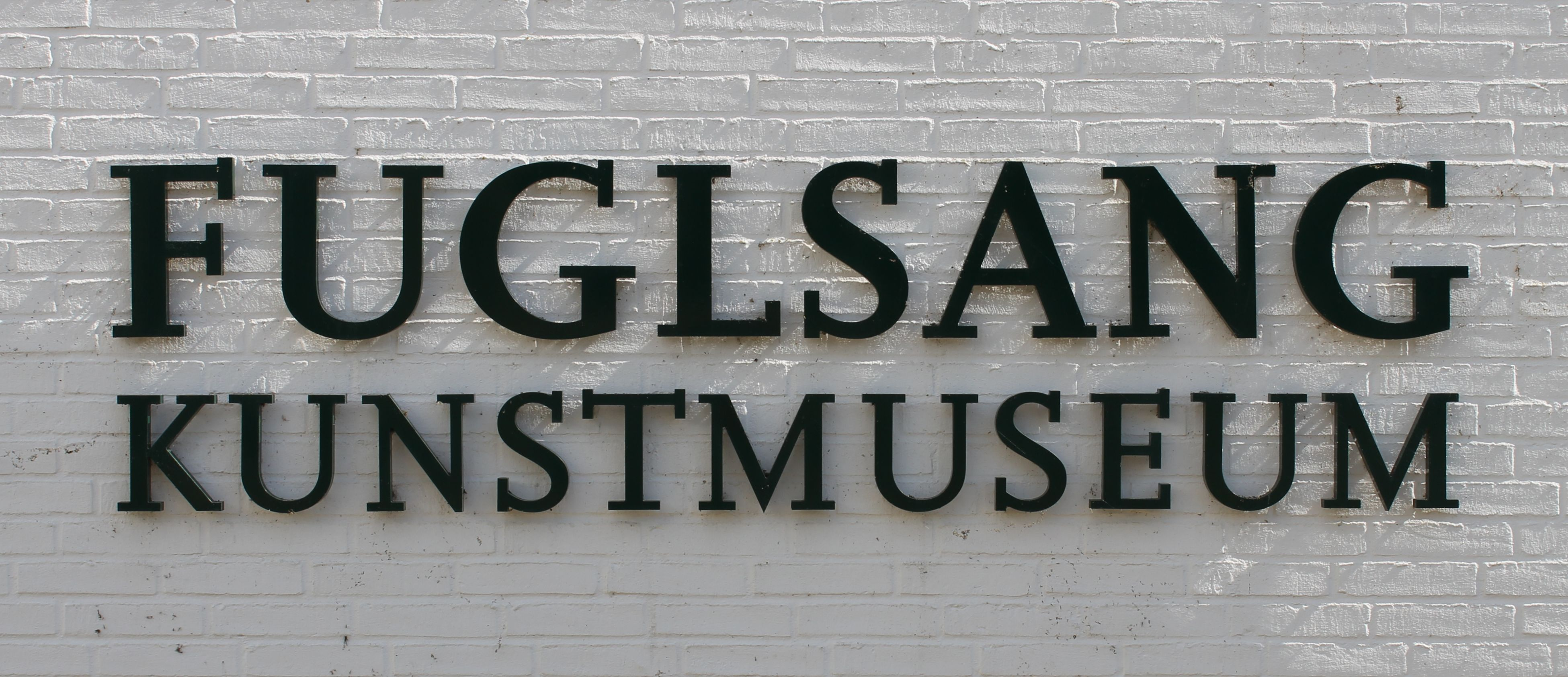 Logo Fuglsang Kunstmuseum